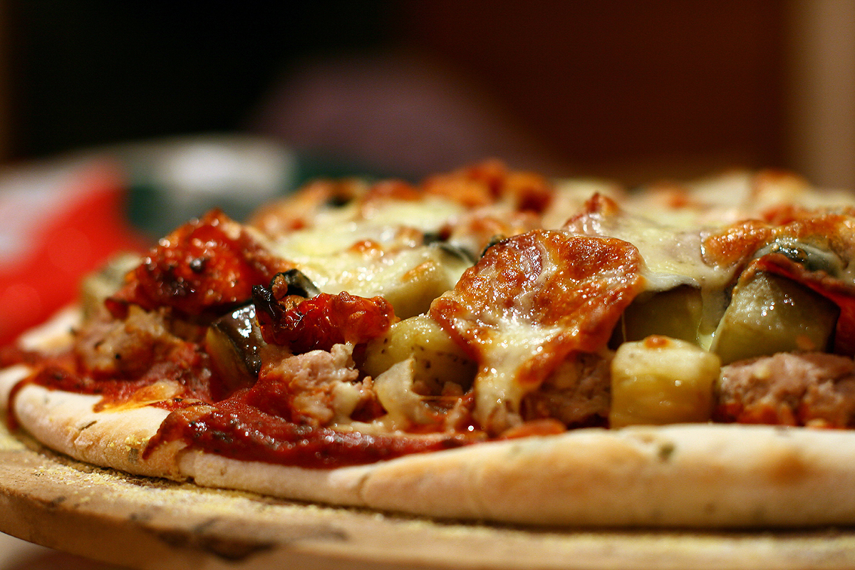 A pizza from the oven